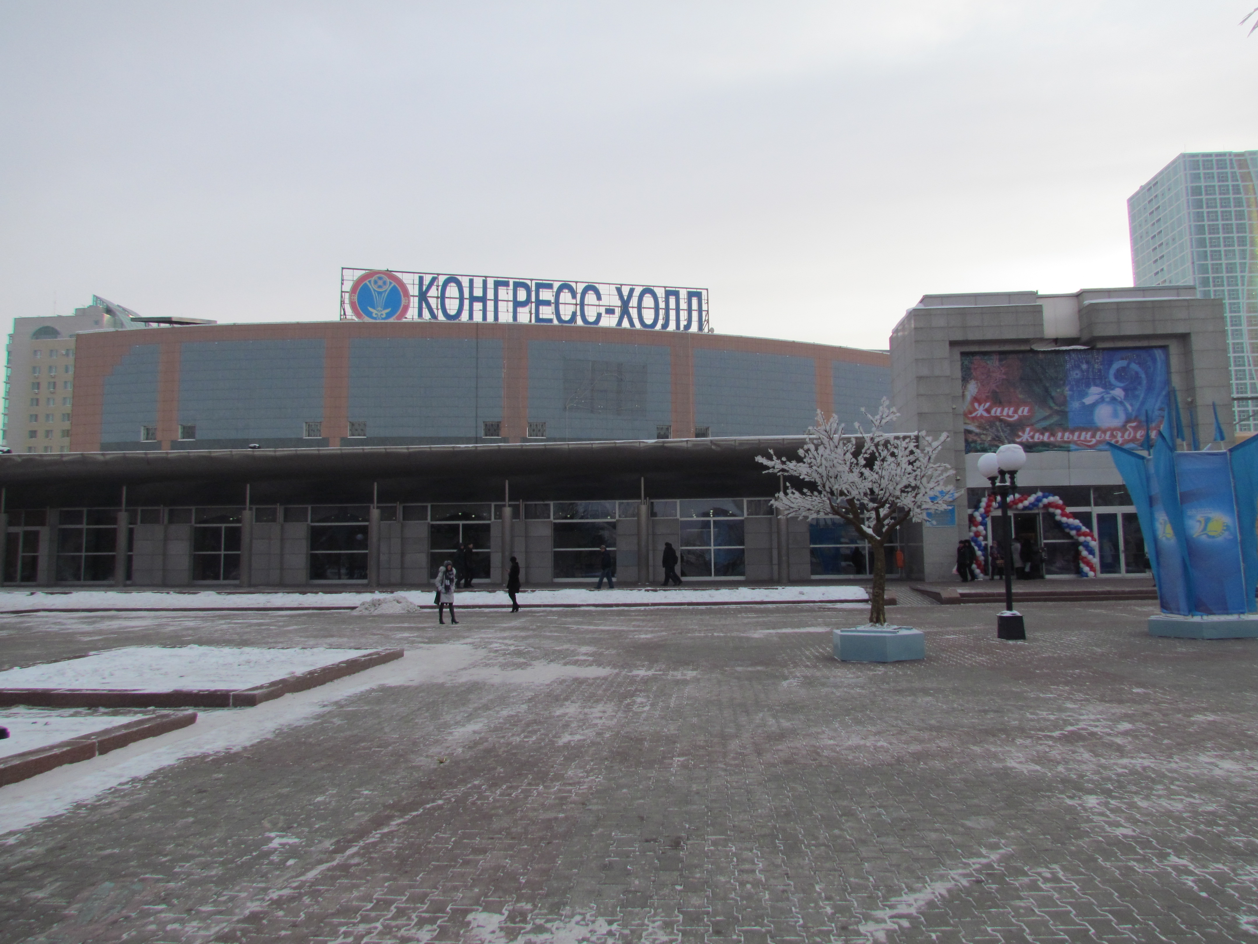 Congress Hall in Astana